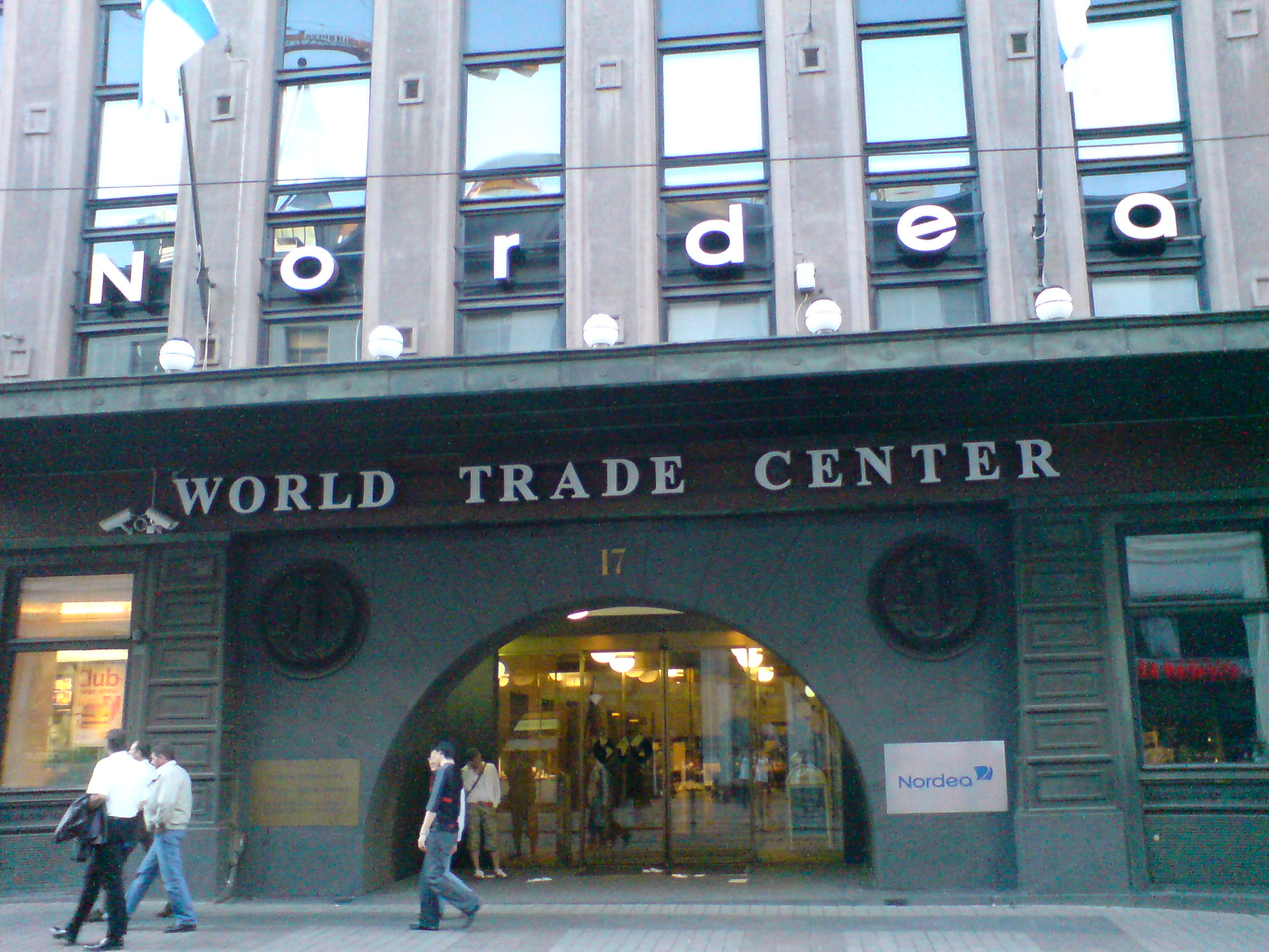 World Trade Center in Helsinki